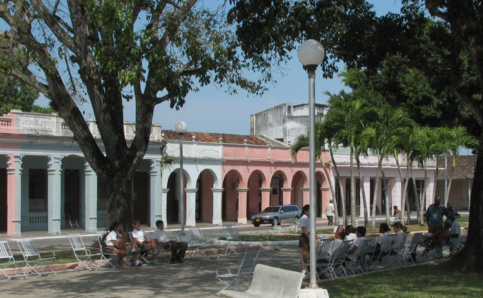 my own